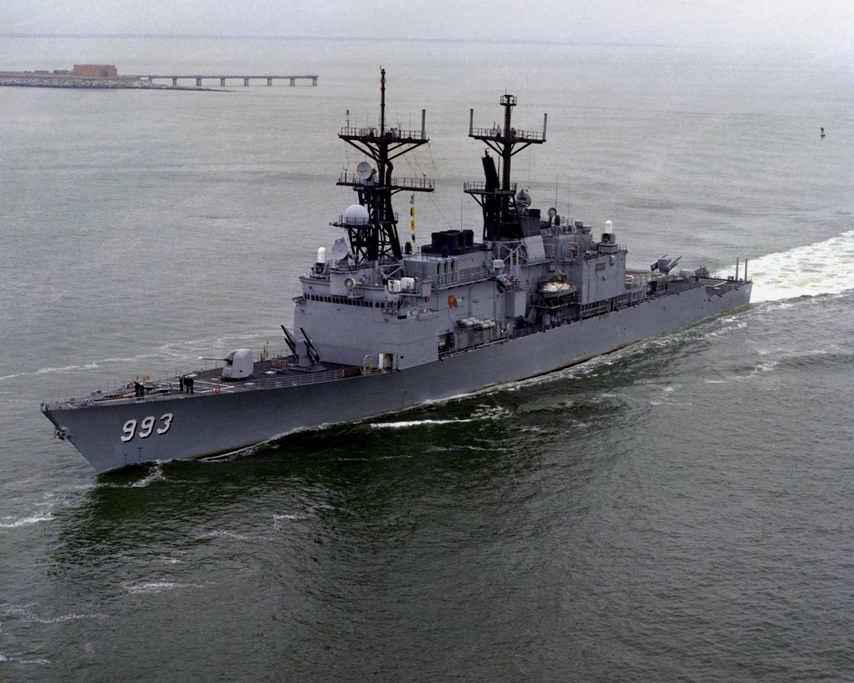 The U.S. Navy guided missile destroyer USS Kidd (DDG-993) crossing Thimble Shoals in Chesapeake Bay (USA).